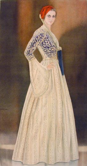 Greek Lady's Gala Dress of 1835 - Greek Costume Collection by NICOLAS SPERLING (Russia 1881-1940 / act: Athens).